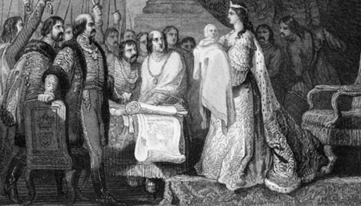 Miss Julia Corners illustration by Davenport for book about Germany and the Austrian Empire published by Dean and Son. c. 1854 shows Maria Theresa showing her infant son